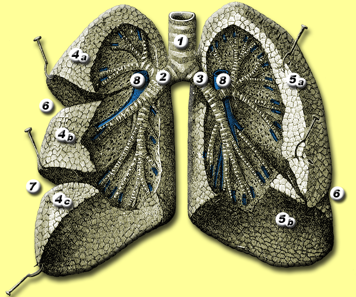 Anatomy of the lungs - based on image 962 from online edition of Gray's Anatomy The lungs 1 = trachea 2 = right bronchus 3 = left bronchus 4 = right lobe: superior (4a), middle (4b), inferior (4c) lobes 5 = left lobe: superior (5a) and inferior (5b) lobes 6 on the right = horizontal fissure 6 on the left = oblique fissure 7 = oblique fissure 8 = pulmonary artery